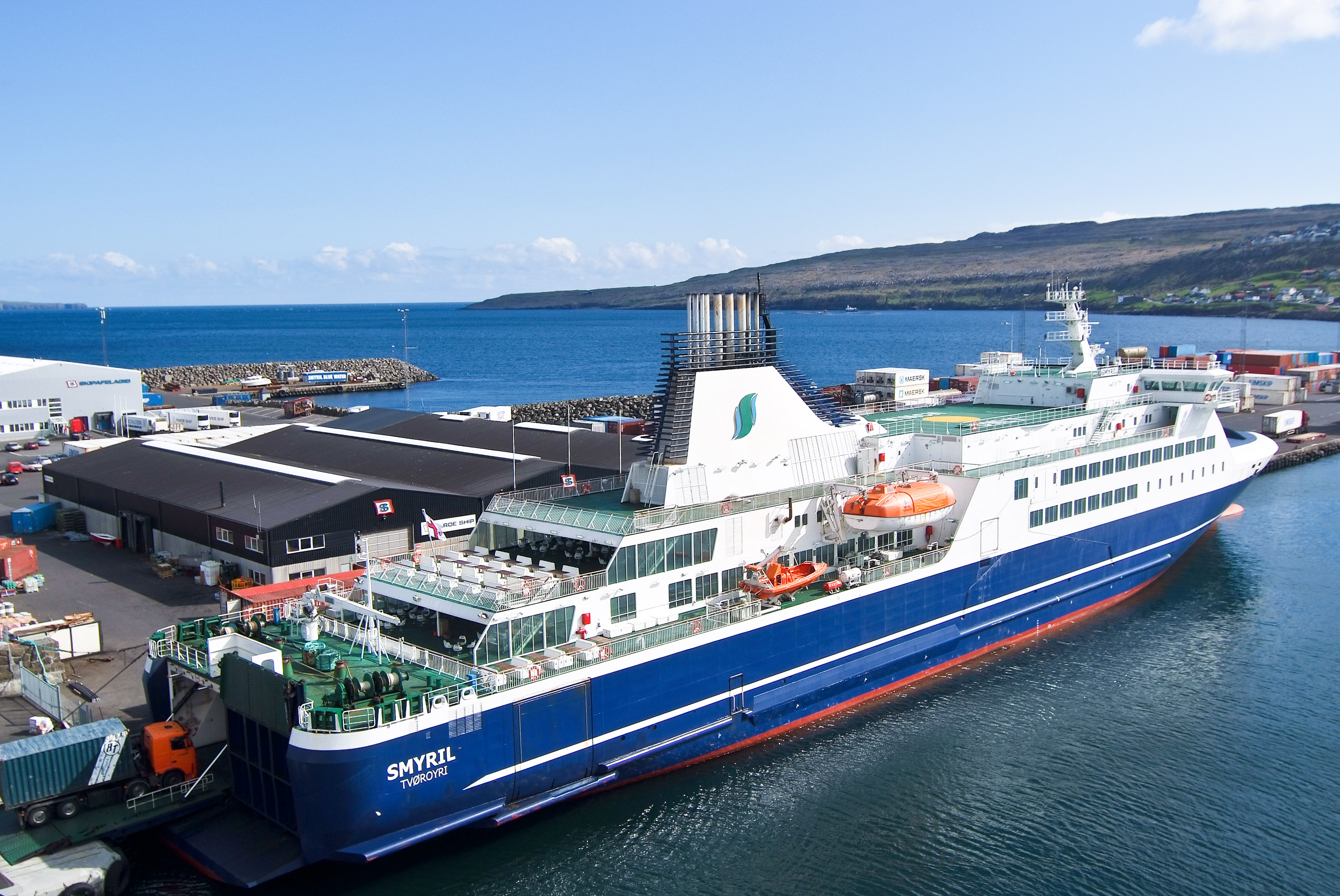 In Tórshavn Harbour, Faroe Islands